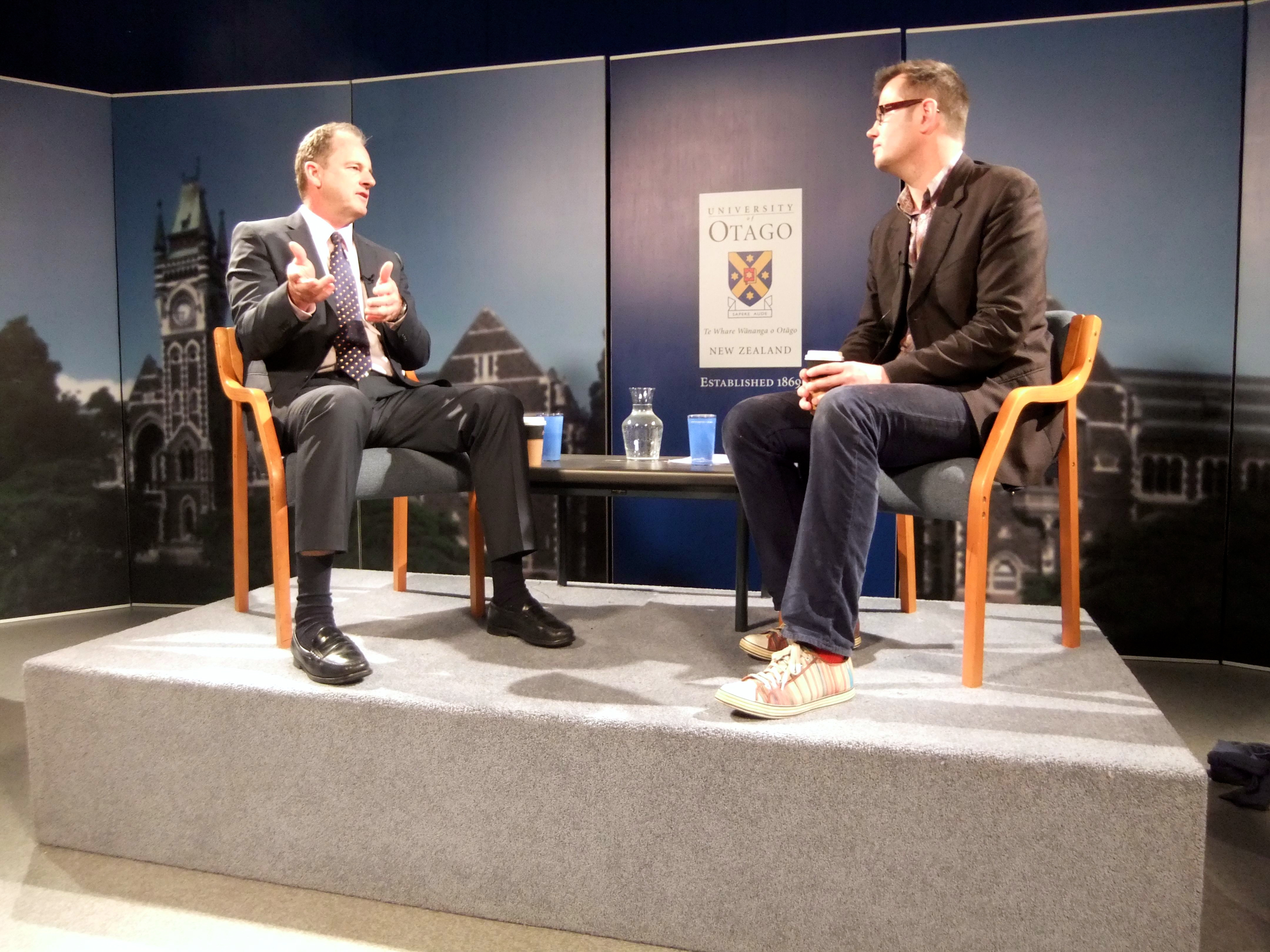 Bryce Edwards talking to Labour's David Shearer in a University of Otago 'Vote Chat' election year forum in 2011.